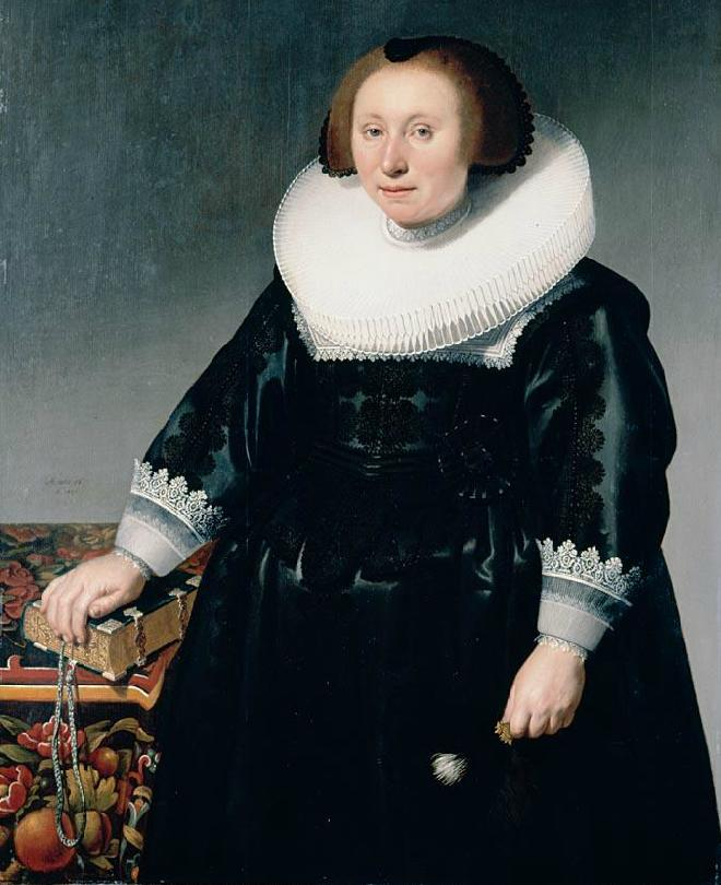 Portrait of a matronly lady in a black cap and black dress with white box collar facing left holding a book on a table with flowered table carpet. Signed and dated centre left: "Ætatis.56/ A0. 1630/ HD f", oil on panel, 124x92.6 cm.